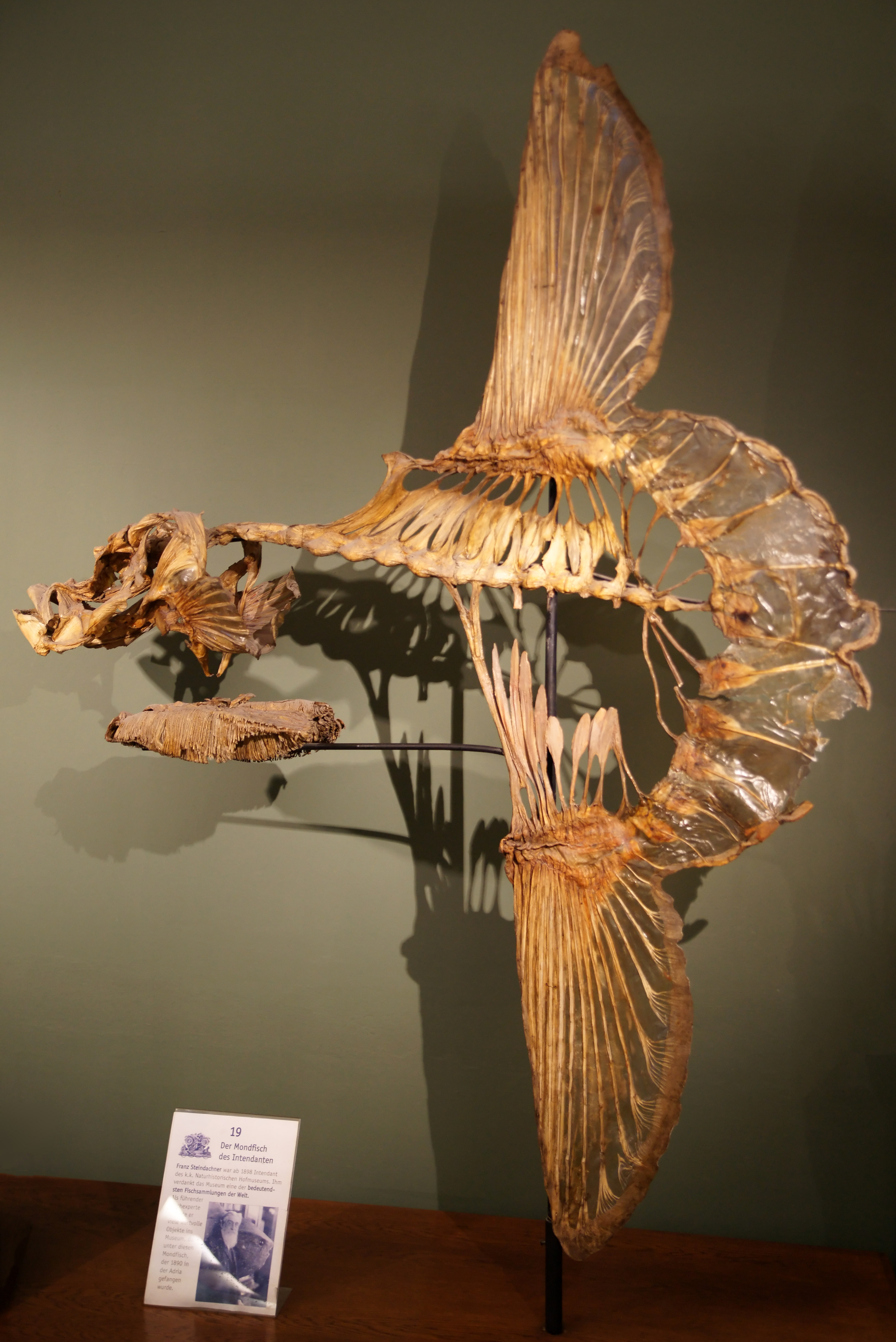 Skeleton of an ocean sunfish, Mola mola, Naturhistorisches Museum Wien.